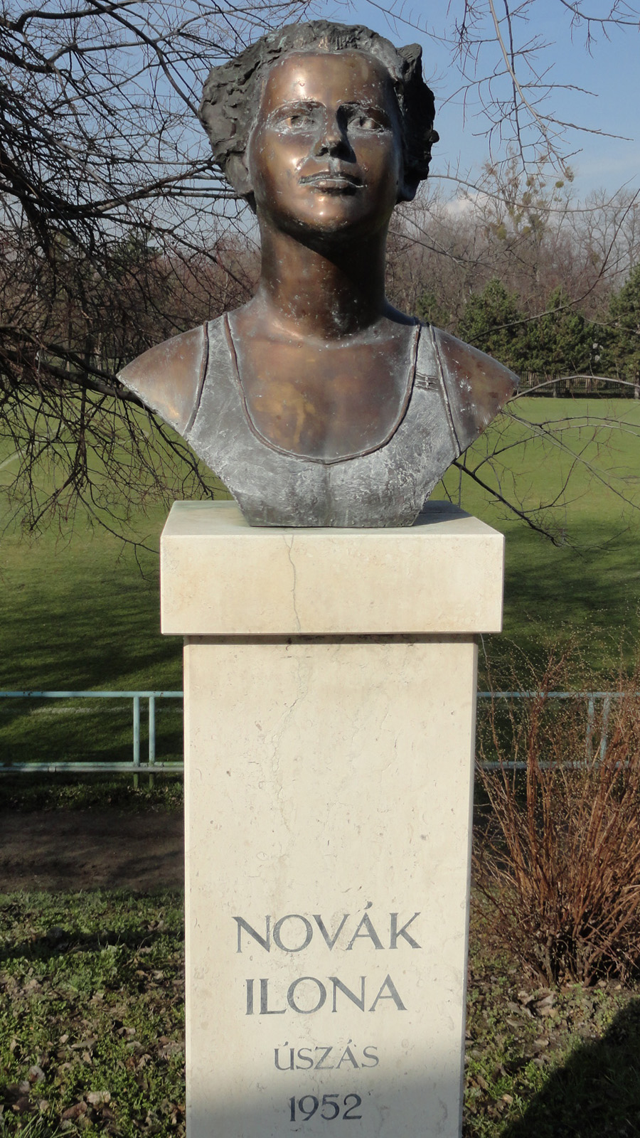 Ilona Novák, hungarian swimmer. 1952 Summer Olympics - Gold Medal Winner